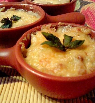 Julienne, a hot zakuski dish of Russian cuisine. Мushrooms in cream or béchamel sauce topped with grated cheese and baked in a cocotte. Chicken, fish or seafood can also be used with or instead of mushrooms.